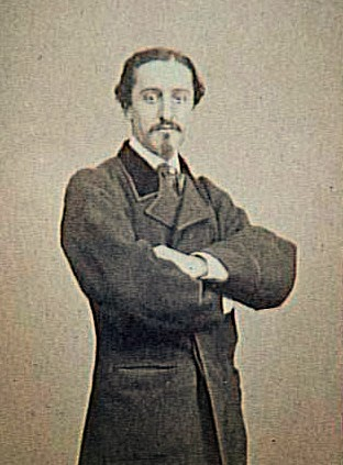 Spanish painter Luis Álvarez Catalá (1836-1901), date of photograph unknown (1880s?)